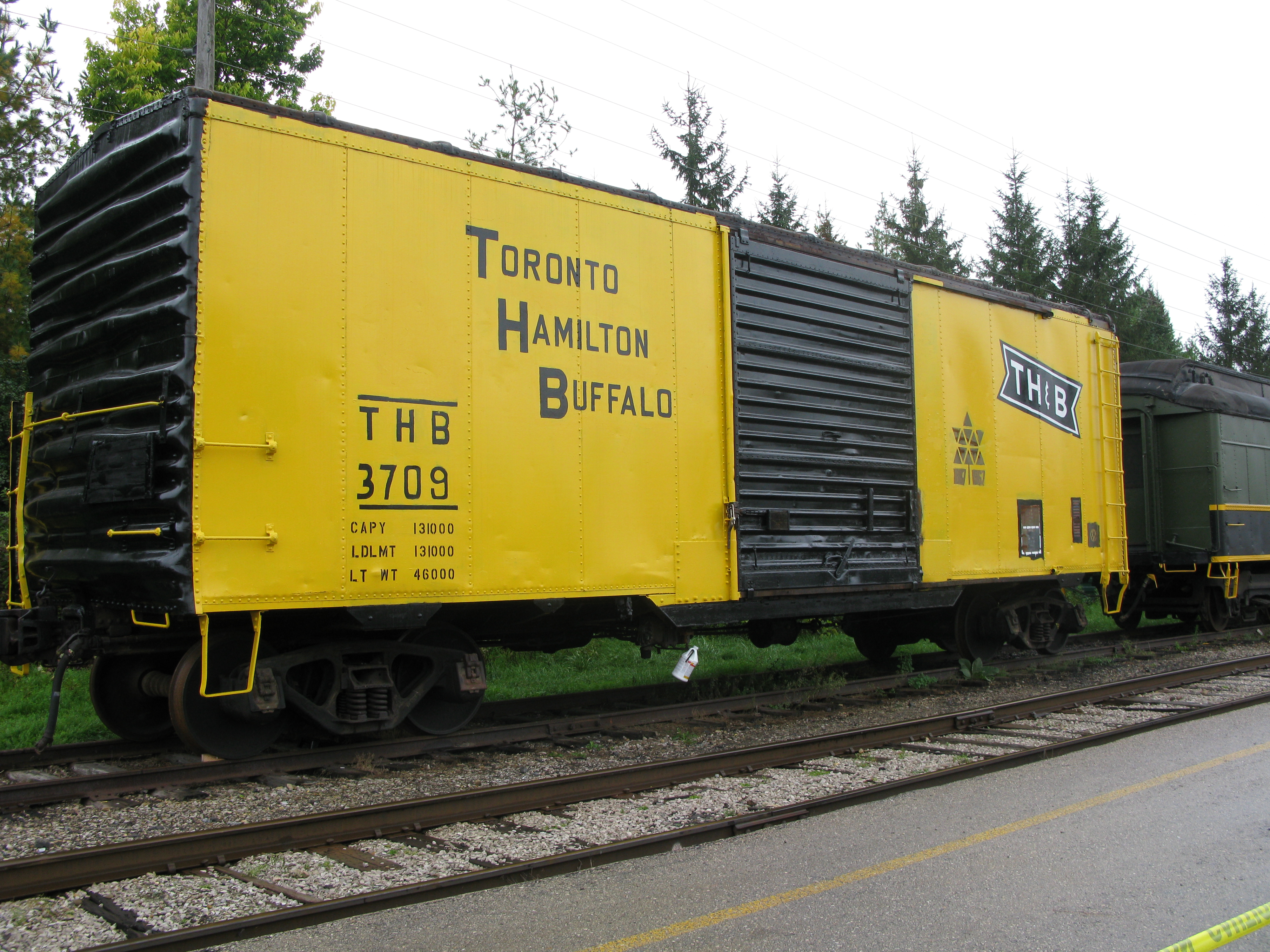 Train car with Toronto, Hamilton & Buffalo Railway branding, undergoing restoration by the Southern Ontario Locomotive Restoration Society in St. Jacob's, Ontario.